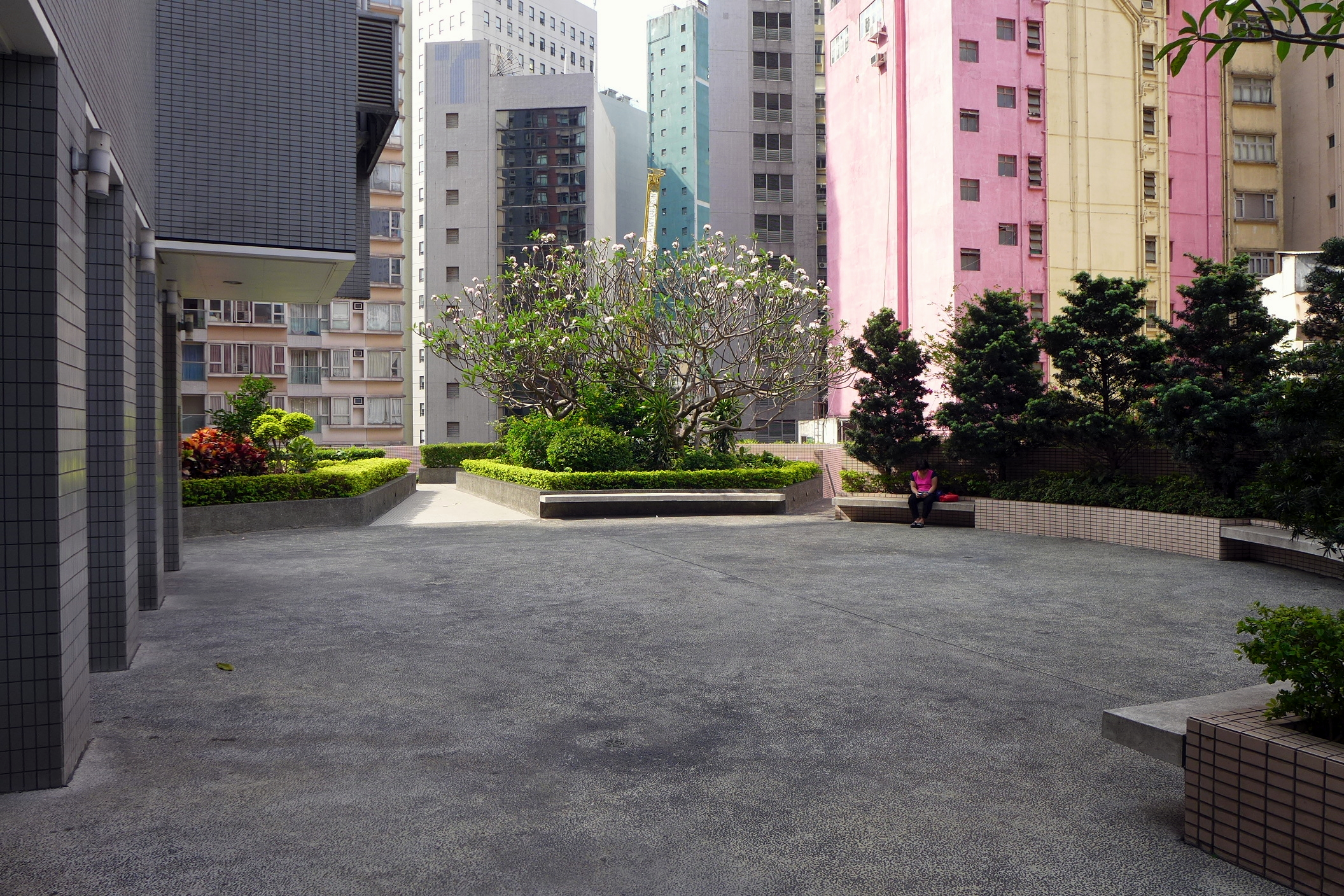 Hollywood Terrace Public open space